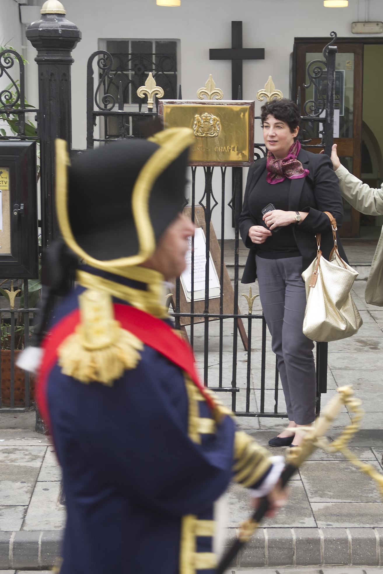 Joanne Harris at the King's Chapel during the Gibraltar International Literary Festival held in October 2013.